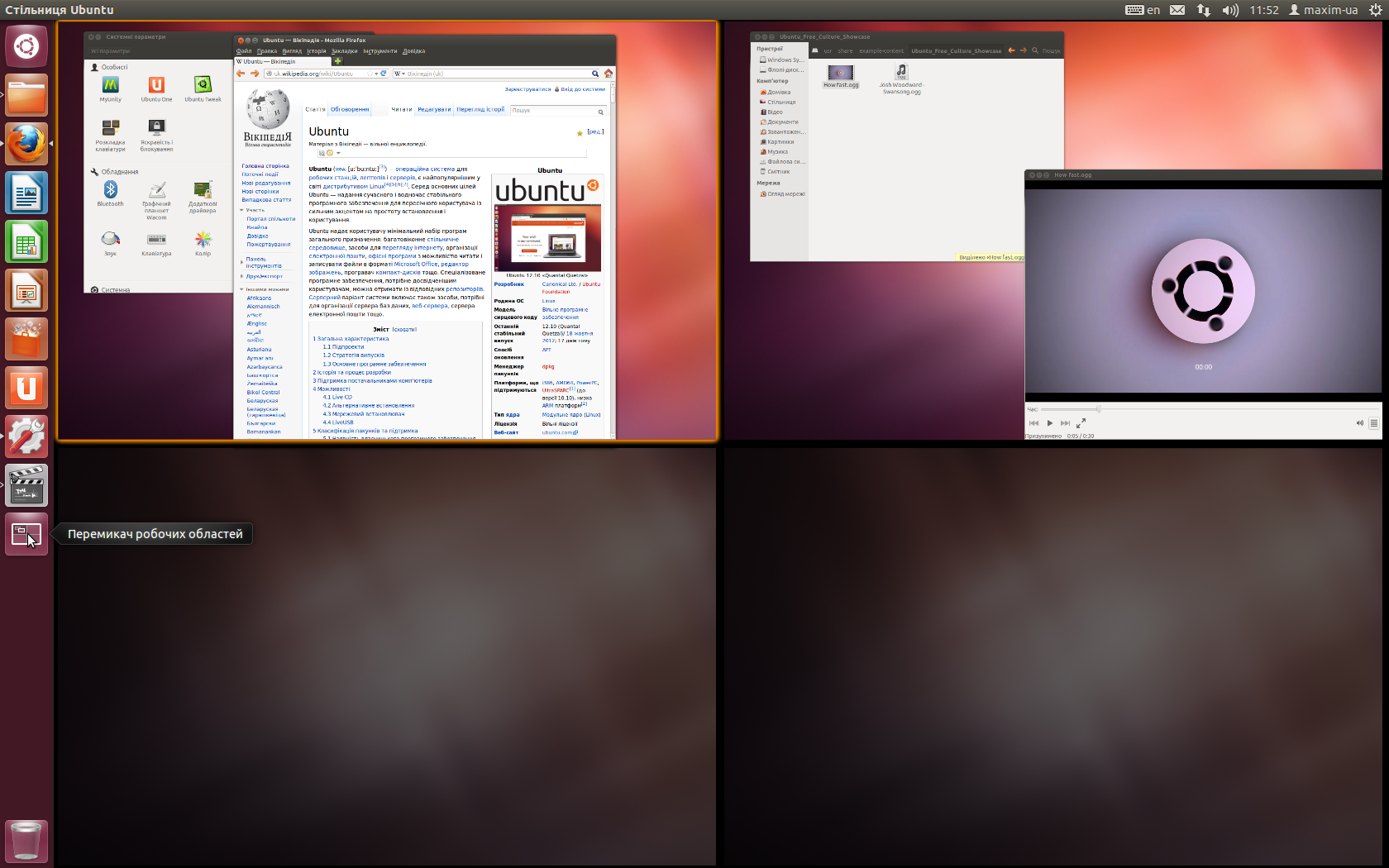 Unity Workspace switcher on Ubuntu 12.04 LTS. In Ukrainian